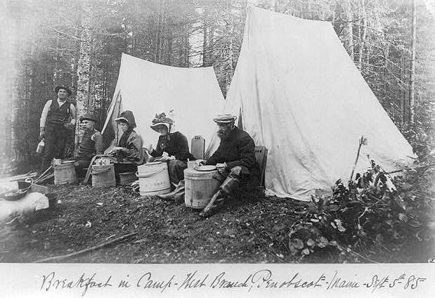 Breakfast in camp - West Branch, Penobscot, Maine - Sept. 5th, 1885.